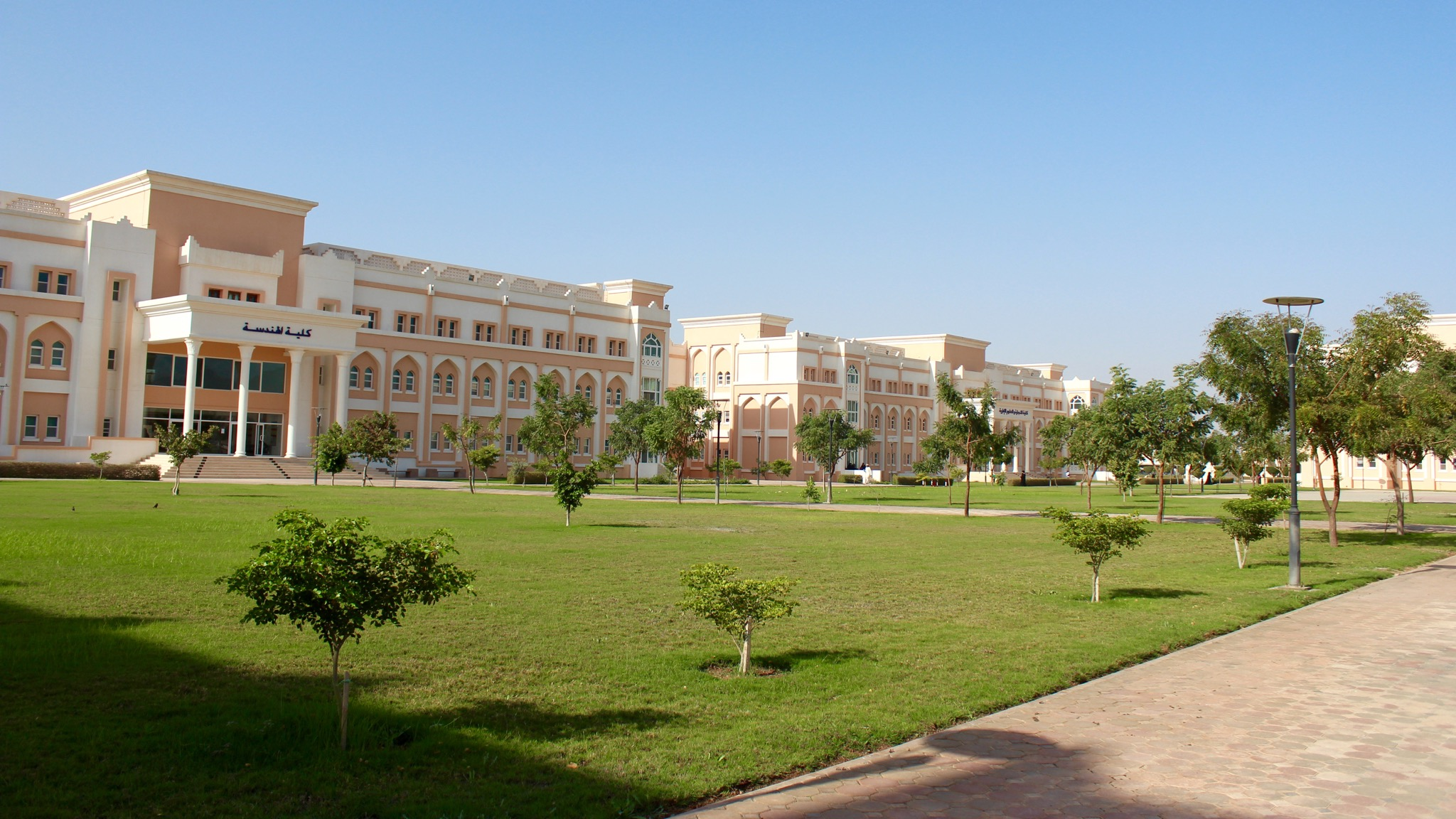 Near Salalah, Oman.